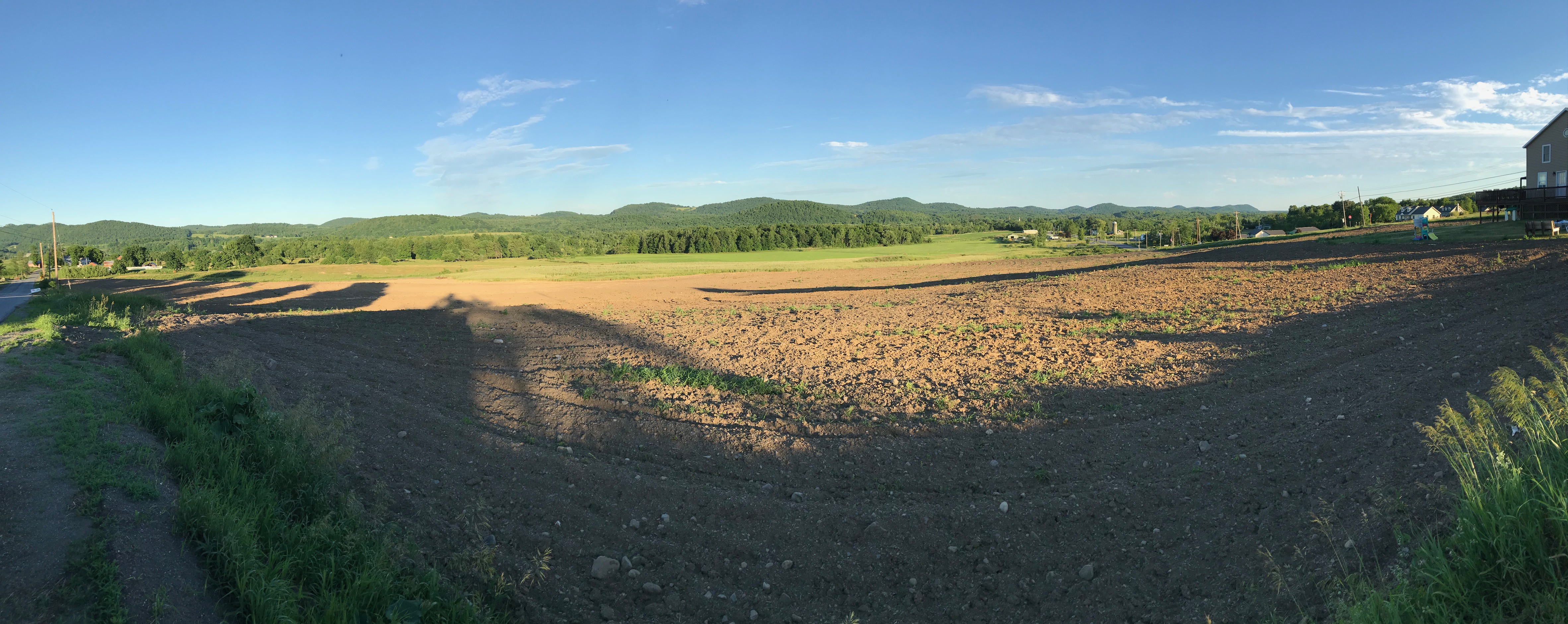 View looking S-SE towards the town and village of Argyle, in Washington County, New York, USA